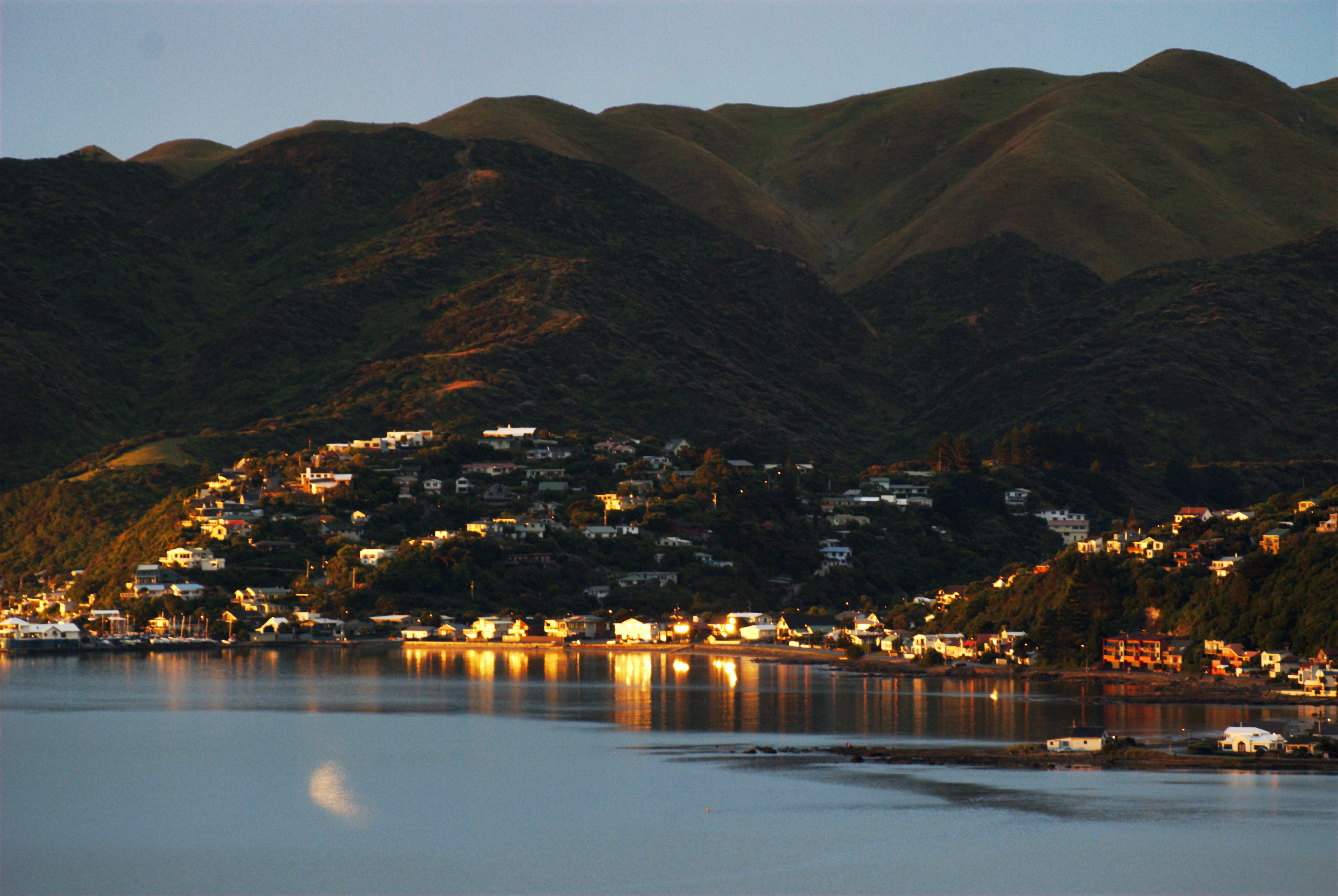 An evening view of Karehana Bay, from Paremata, Porirua City, New Zealand